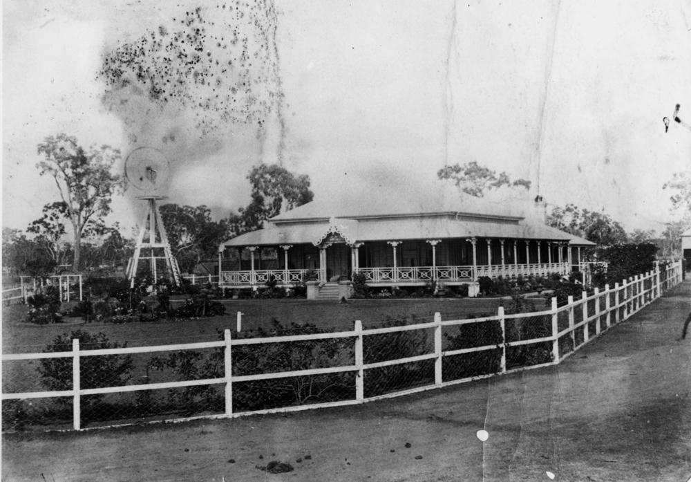 Rosebank homestead, Townsville, ca. 1892.